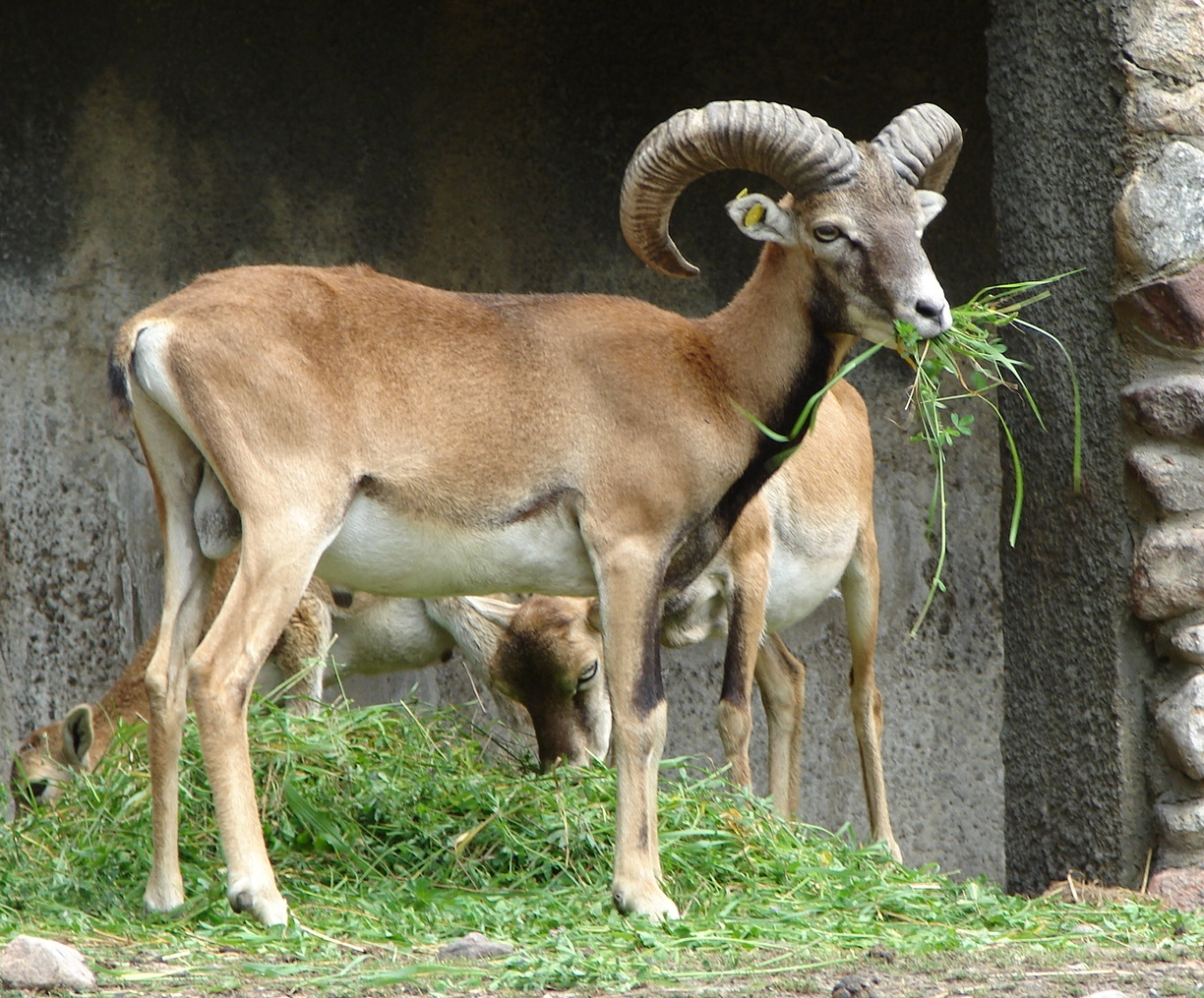 Ovis musimon, zoo in Toruń